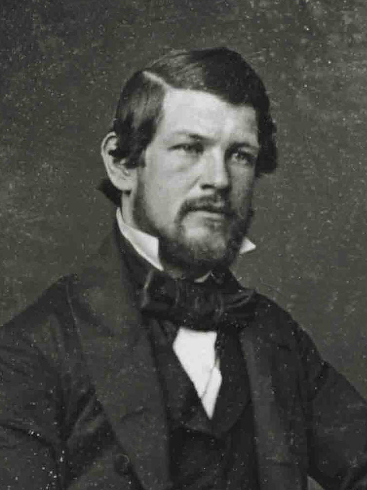 Roderick N. Matheson San Francisco 1849 or 1850 -- Daguerreotype, Healdsburg Museum image